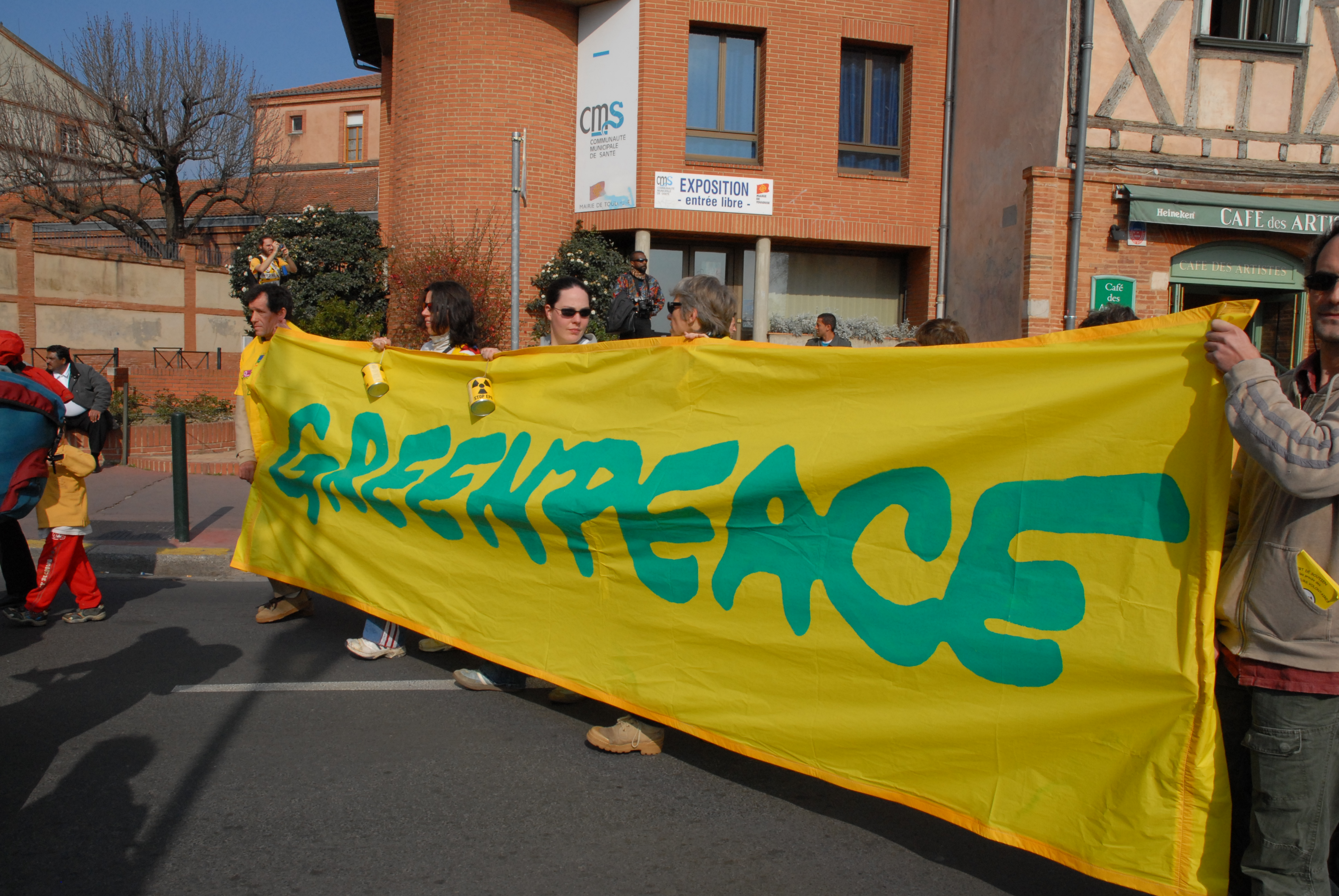 People from Greenpeace during the Anti-EPR demonstration in Toulouse